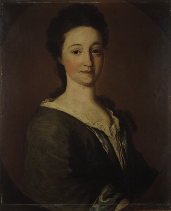 "Mrs. James Pierpont (Mary Hooker)," oil on canvas, is a portrait of the wife of James Pierpont, a Congregationalist minister who was founder of Yale College. He married Mary Hooker, daughter of the Rev. Samuel Hooker, and granddaughter of Rev. Thomas Hooker, founder of the Connecticut Colony. Canvas is 31 in. x 25 in. Image courtesy of the Yale University Art Gallery, Yale University, New Haven, Conn.